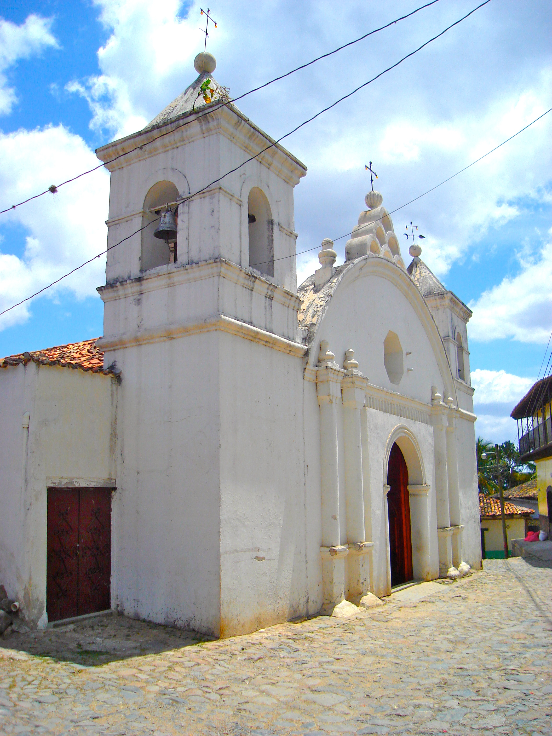 Church in Yuscarán, Honduras